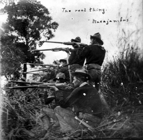 Photo taken during the period Dec. 19-20, 1900.